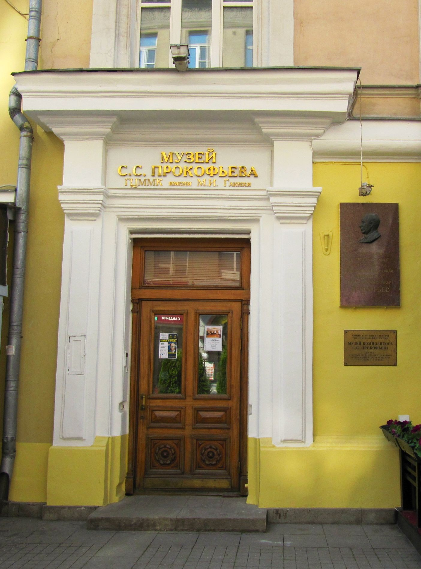 Sergei Prokofiev museum. In this house the great Russian composer lived from 1946 until his death in 1953. Moscow, Kamergersky Lane, 6